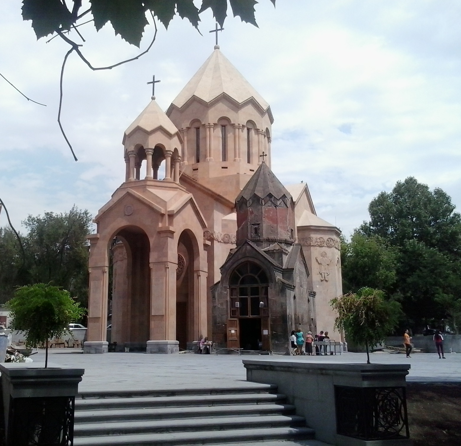 Surp Anna Church Yerevan